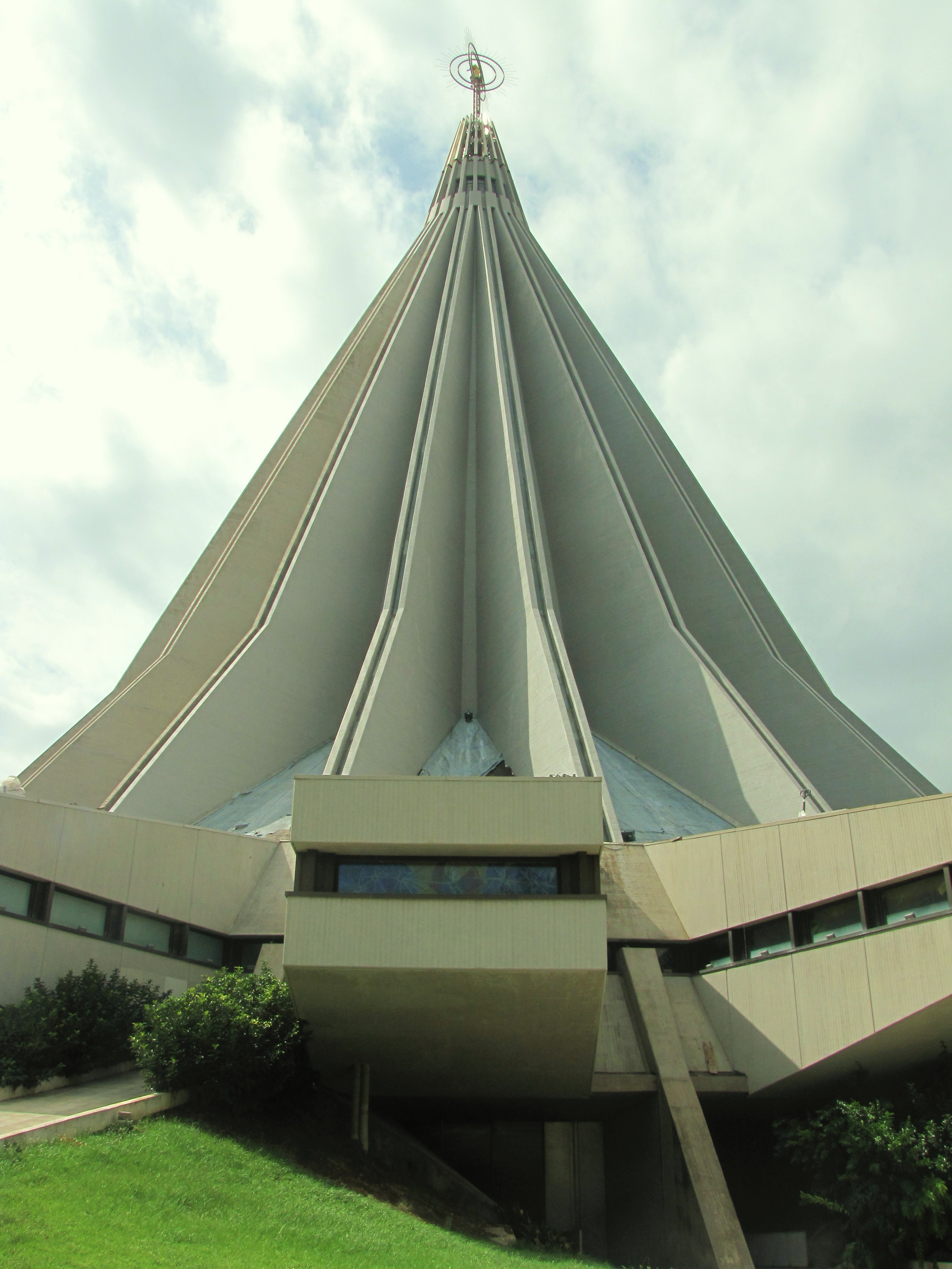 Santuario Madonna della Lacrime(Holy Mary from the tears)-Syracuse,Sicily